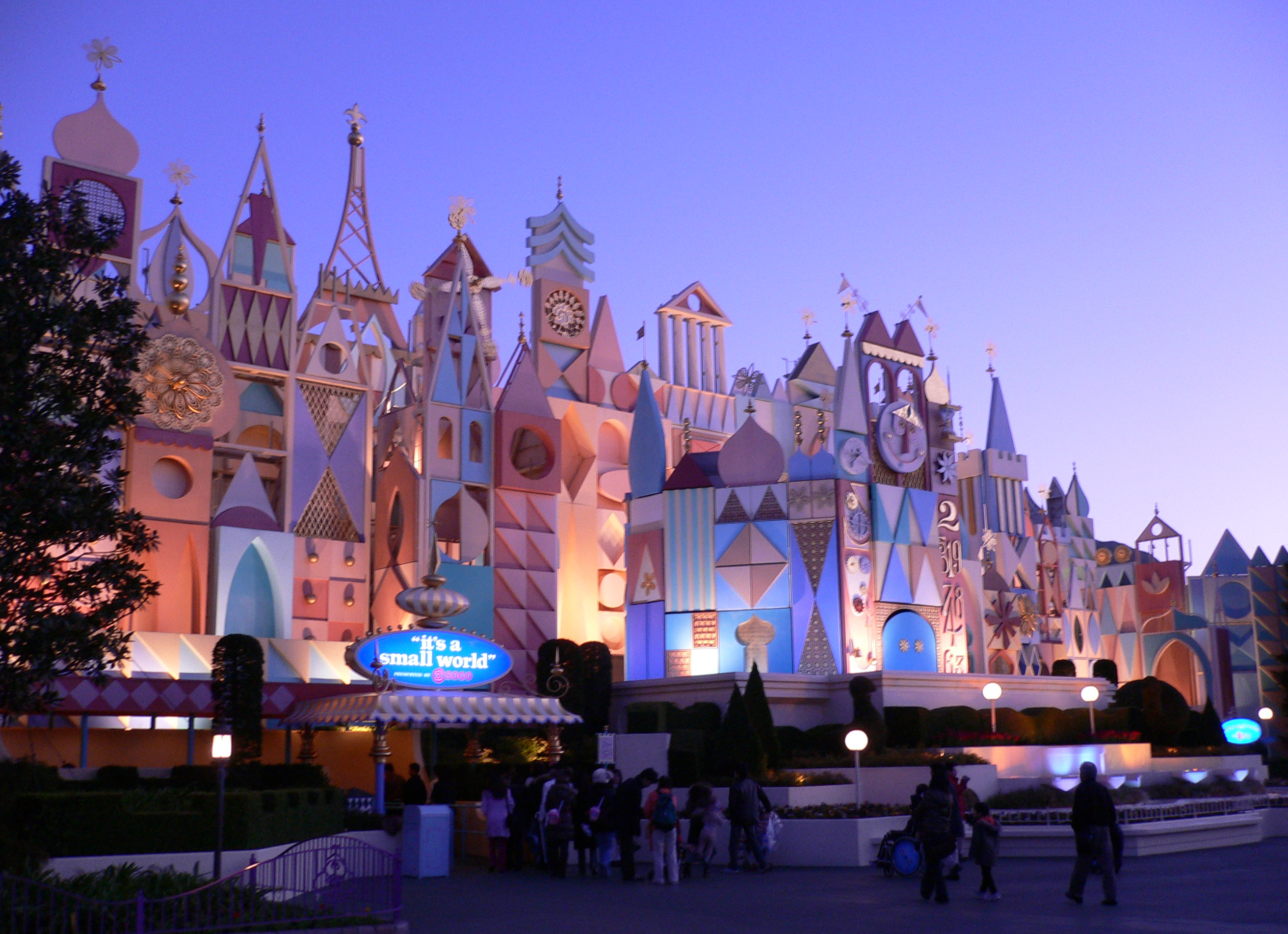 "it's a small world"